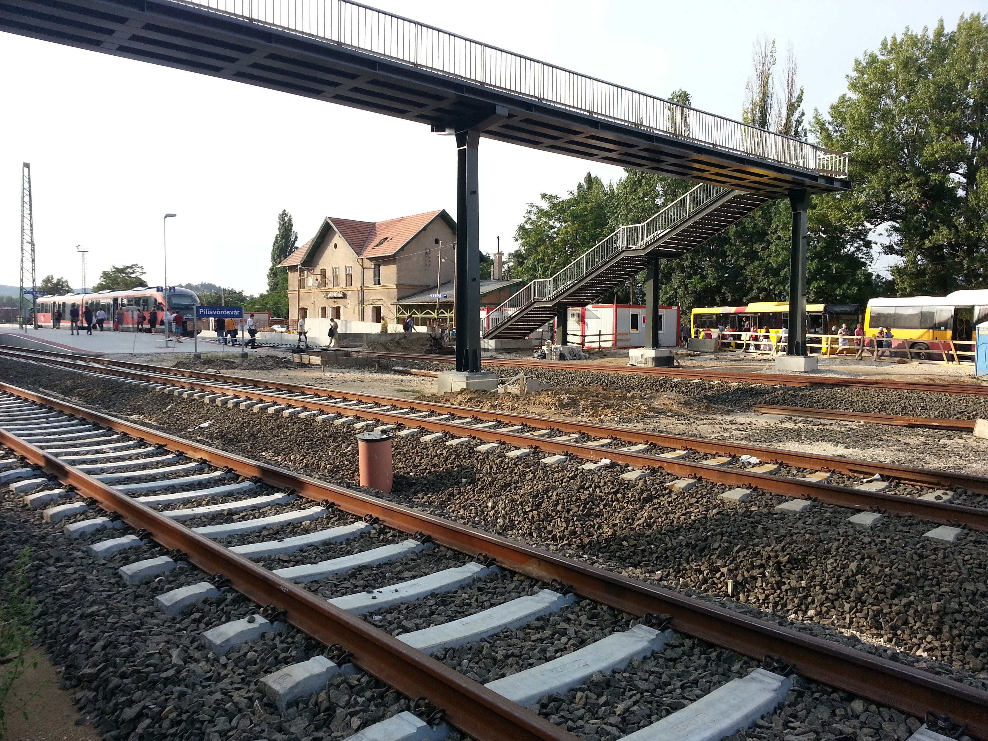 Pilisvörösvár Railroad Pedestrian Bridge with passengers changing from the rail replacement bus to the train to Esztergom.